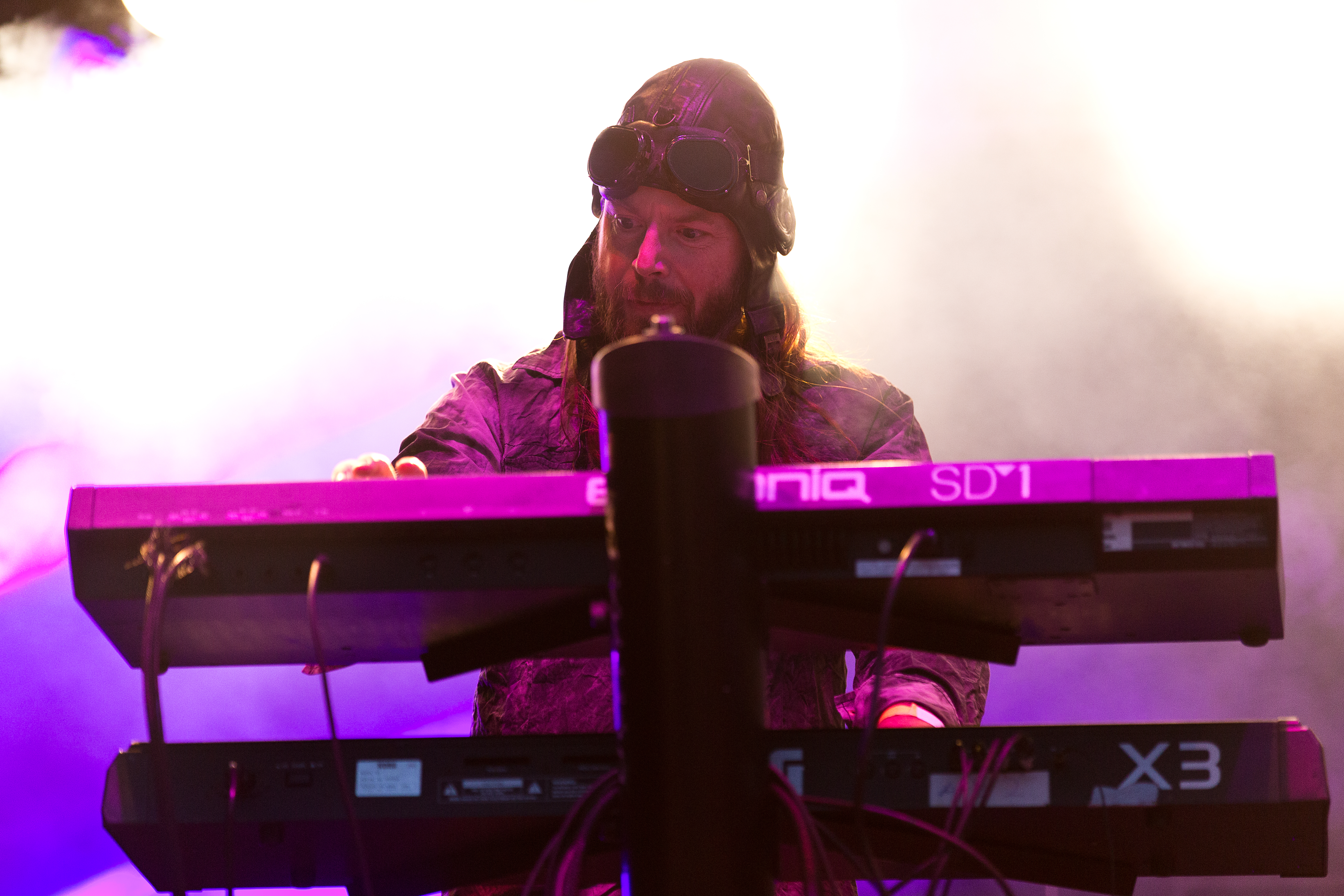 The Norwegian black metal band Arcturus at the Party.San Metal Open Air 2016 in Obermehler-Schlotheim/Germany